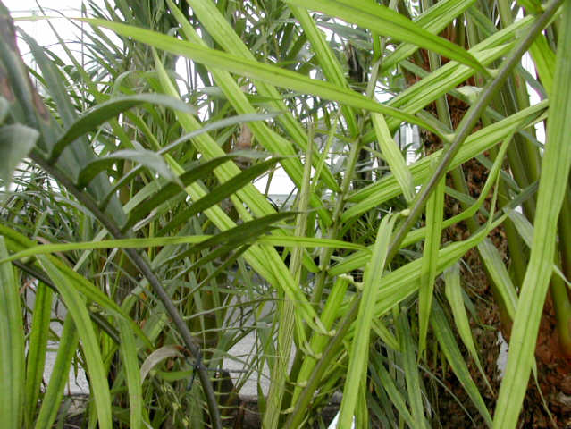 Elaeis guineensis Jacq. Parc du Grand Blottereau - Serres tropicales - Nantes (France)